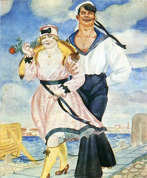 Boris Kustodiyev. Sailor and His Girl